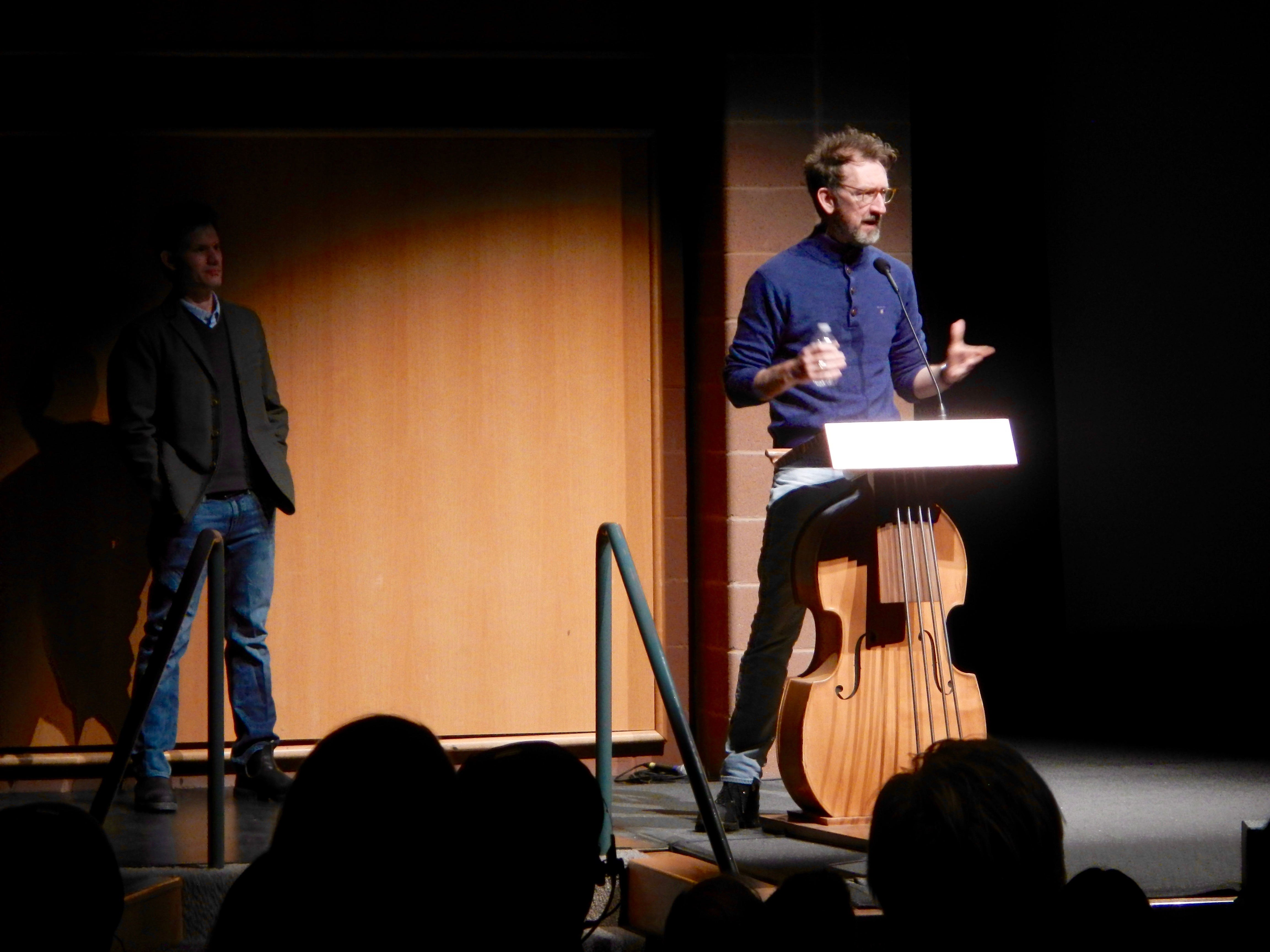 Sundance 2016, Park City UT